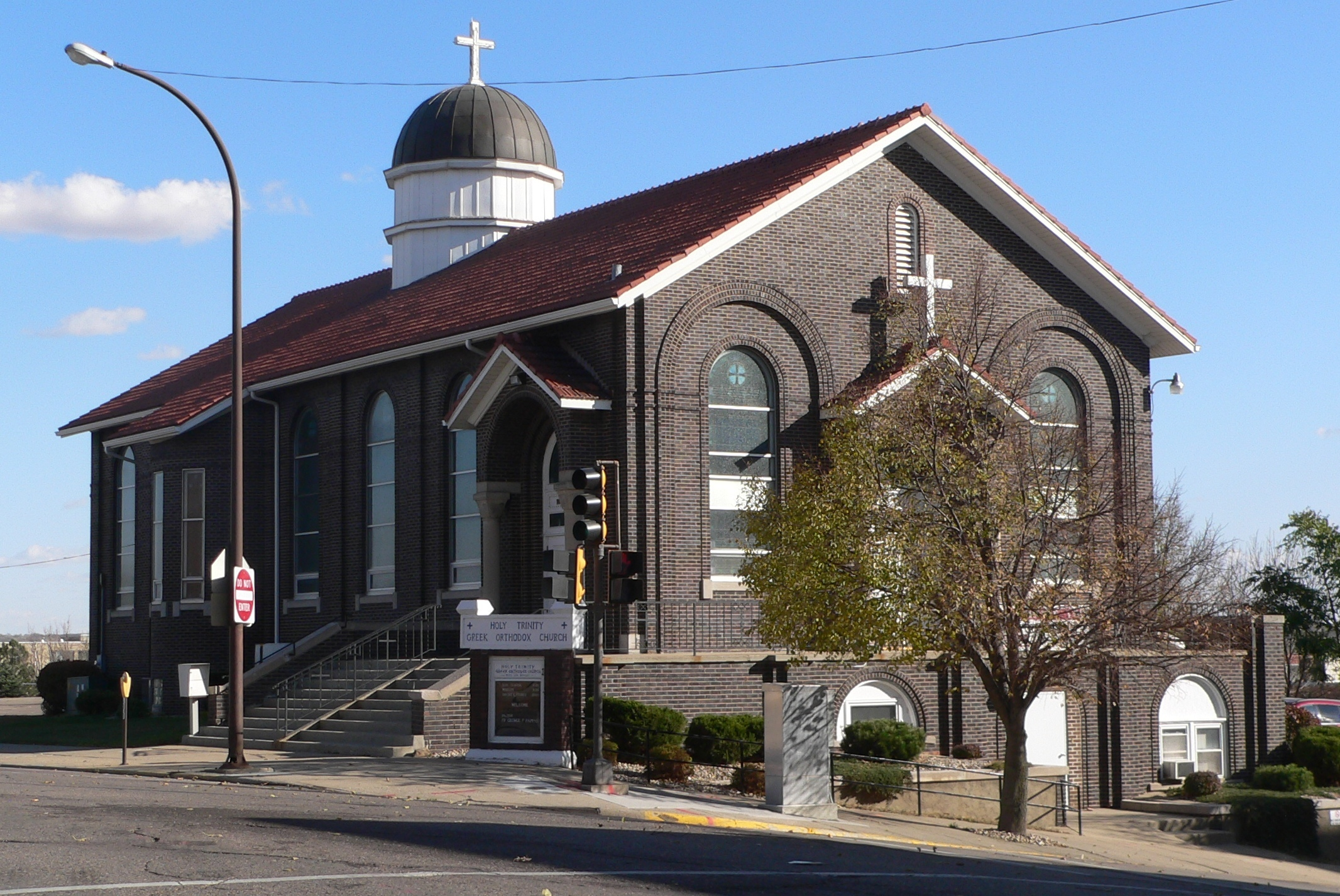 Holy Trinity Greek Orthodox Church, located at 900 6th Street in Sioux City, Iowa; seen from the northwest.